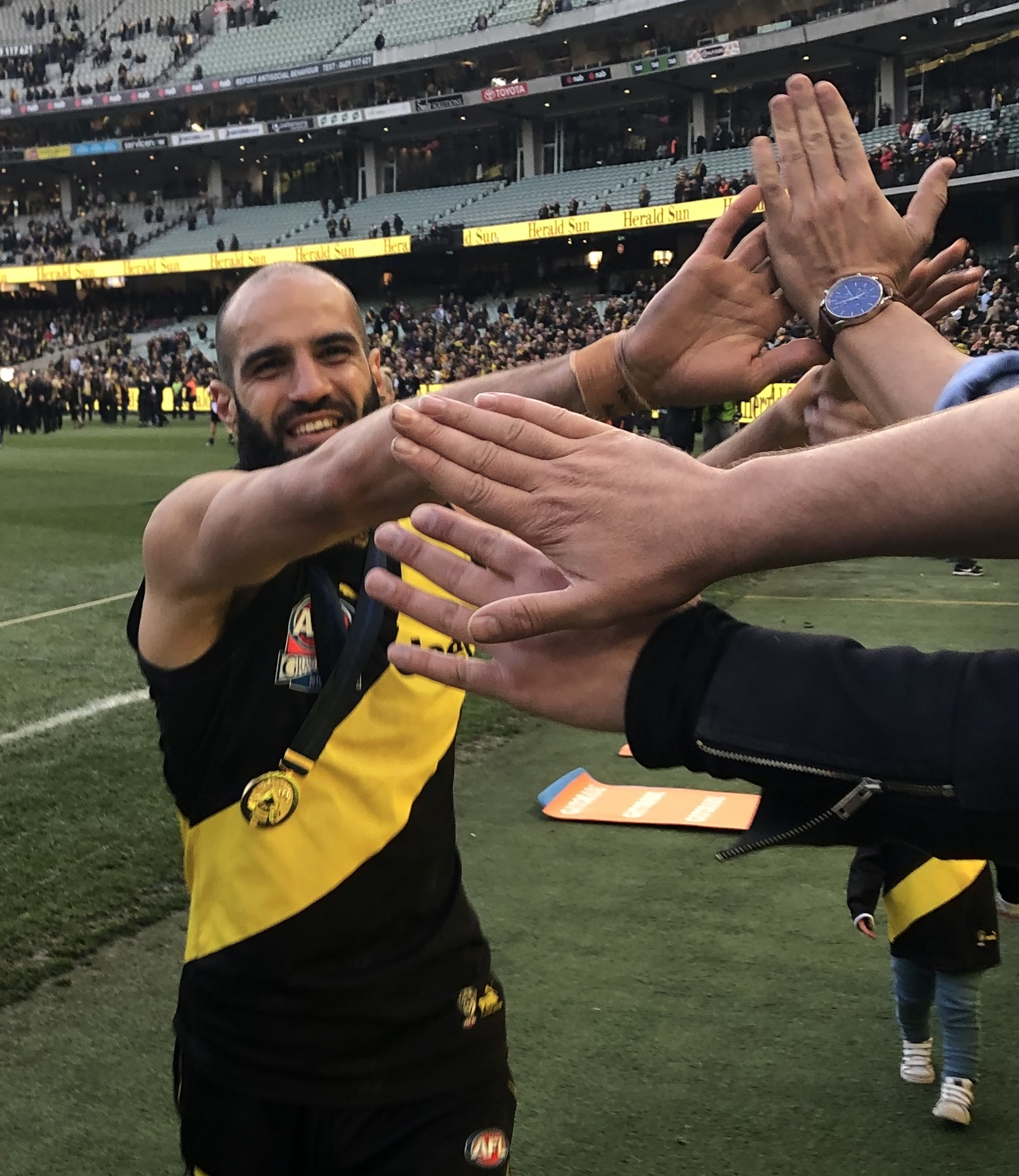 Bachar Houli at the 2019 AFL Grand Final